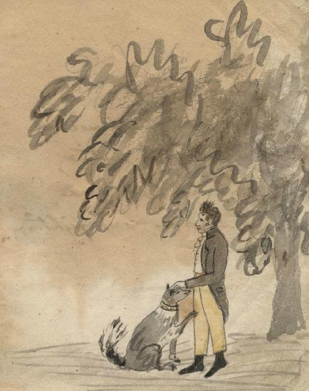 from ‘The Wonderful History of Lord Byron and his Dog’ by Elizabeth Bridget Pigot